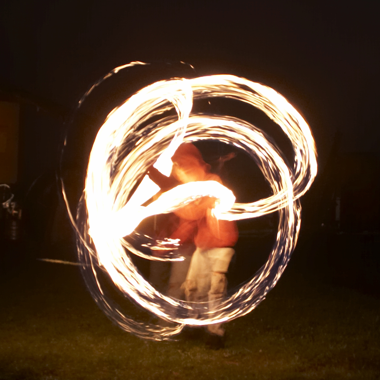 Fireshow